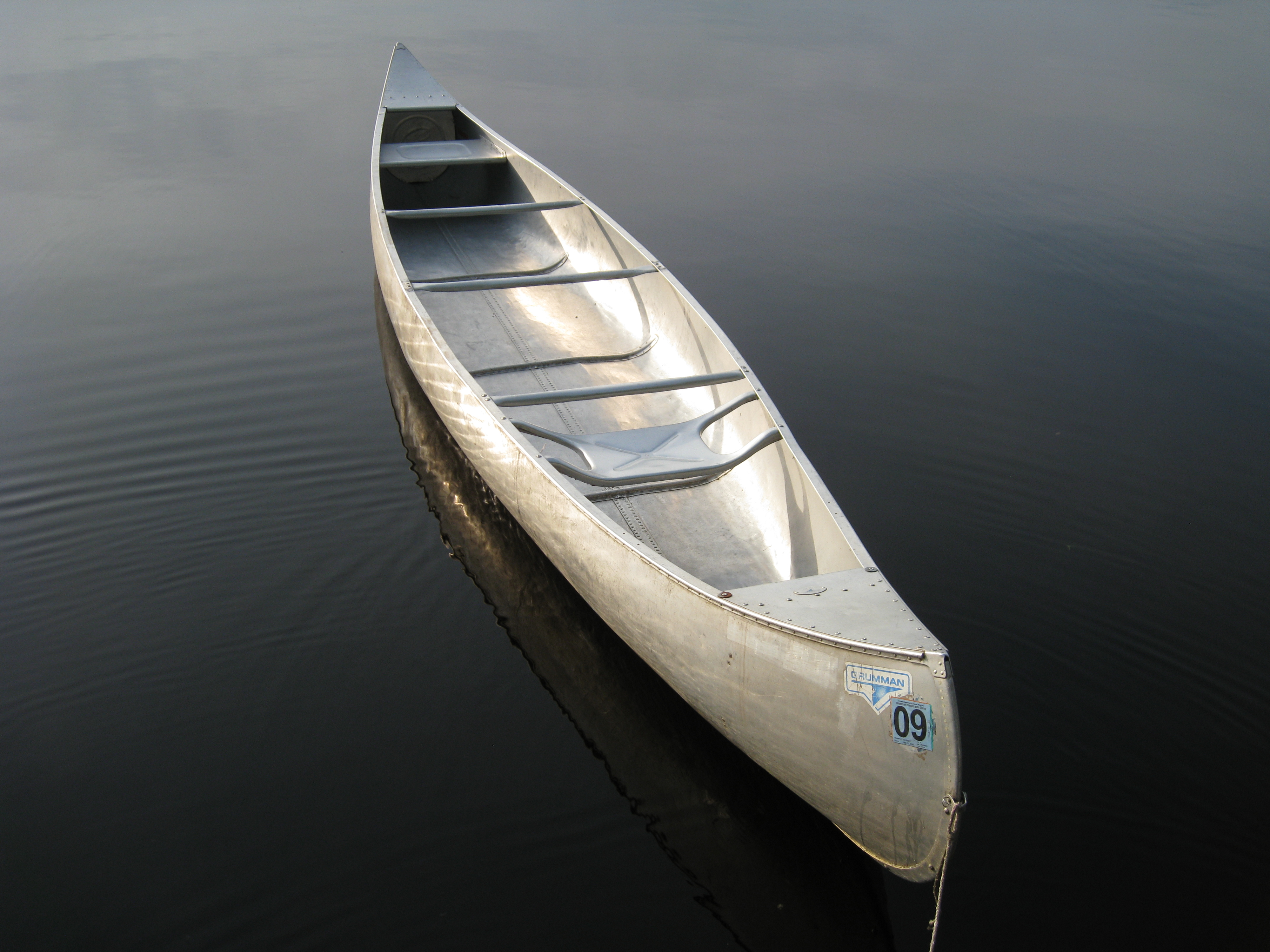 A canoe in the BWCA